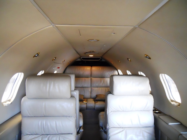 Learjet 25 interior